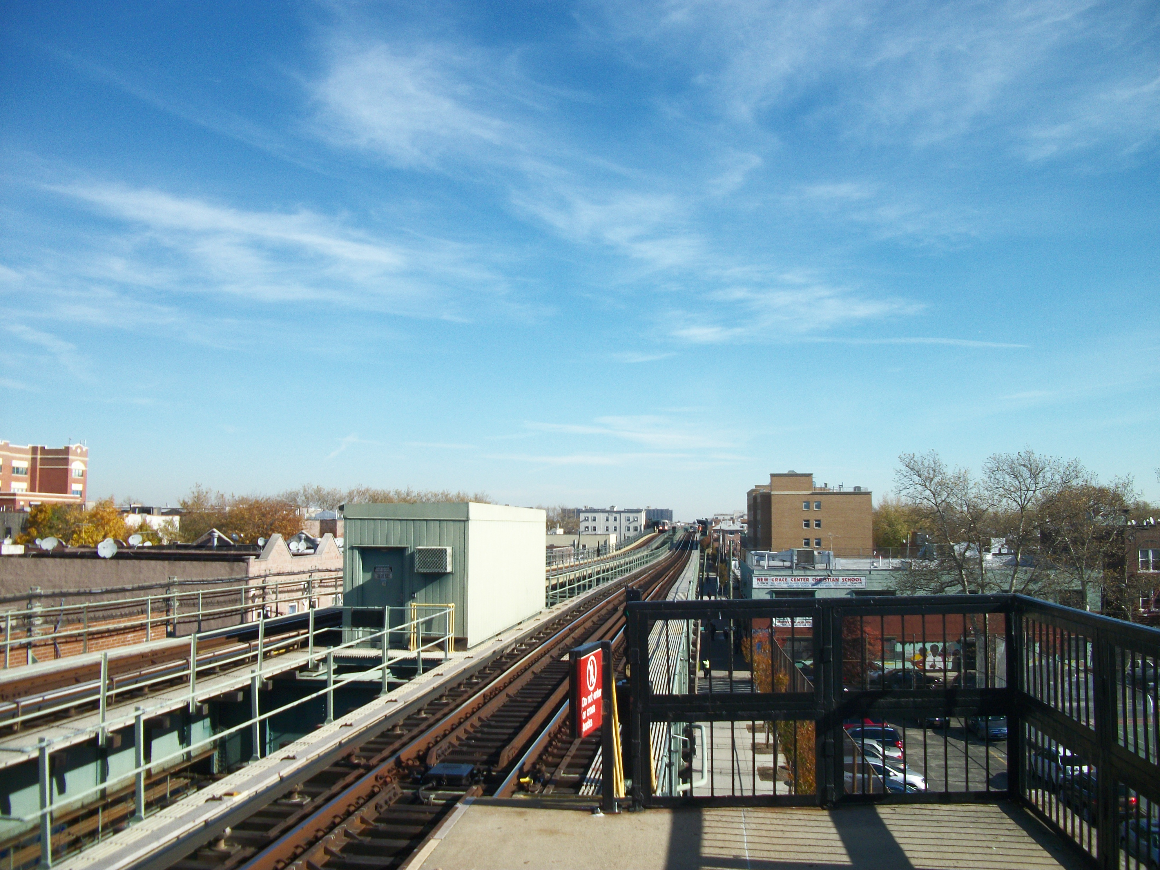 Eastbound view from the New Lots & Livonia Avenues-bound platform of the Pennsylvania Avenue Subway Station on the IRT New Lots Line. An apparent Lenox Terminal-bound 3 train can be seen at Van Siclen Avenue Subway Station off in the distance.